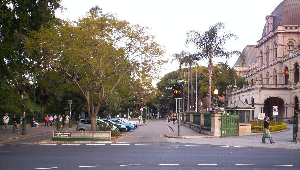 The entrance to the Queensland University of Technology, Gardens Point campus ( this photograph was taken by Figaro )